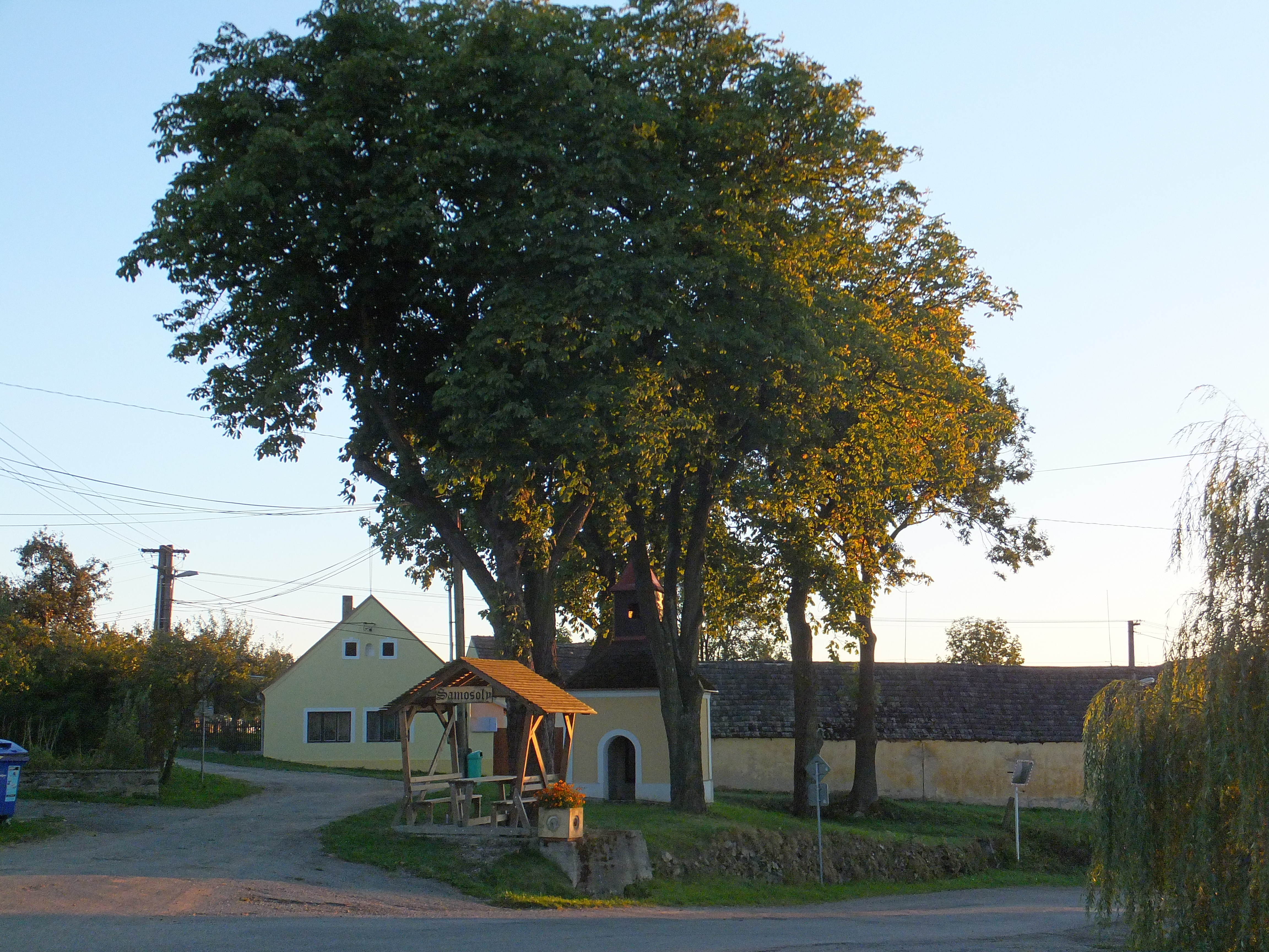 Samosoly - the chapel and the house No. 4